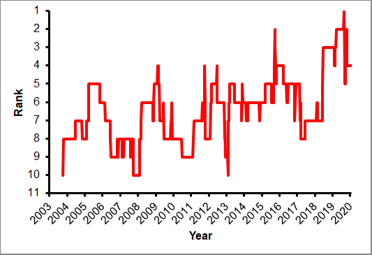 IRB World Rankings from